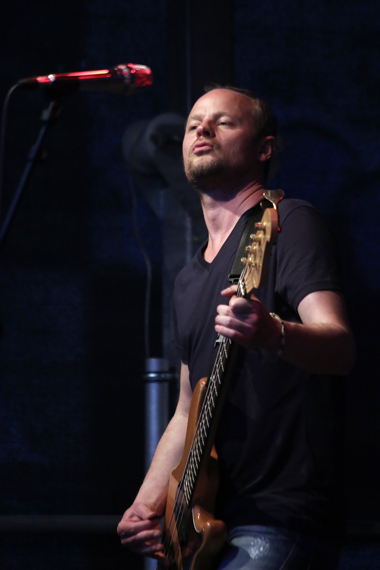 Sofa Surfers Soundsystem feat. Saedi, concert at Donaukanaltreiben 2013 in Vienna, Austria.